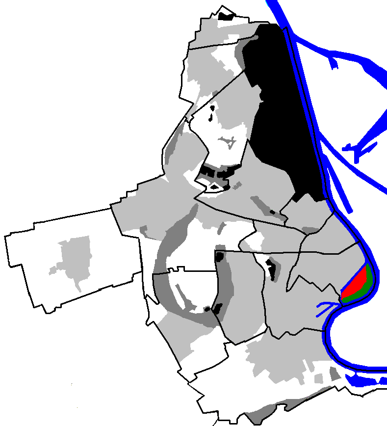 locator map in the German town of Ludwigshafen